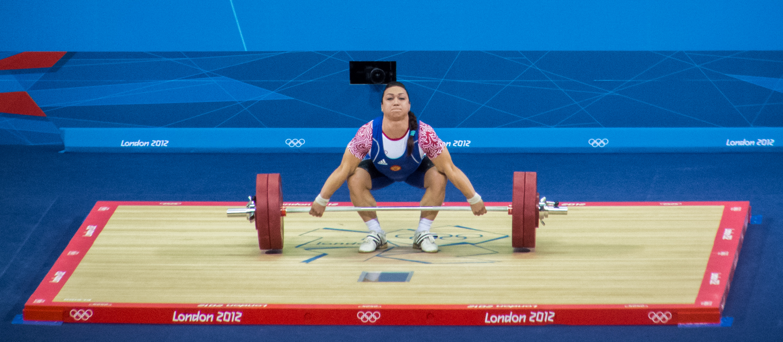 Nadezhda Yevstyukhina, 2012 Olympics